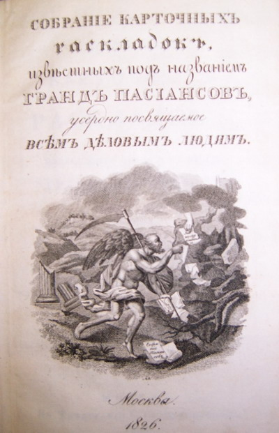 Cover page of book "Sobranie kartochnyh raskladok". Moscow, 1826